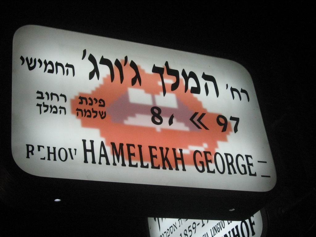 The Municipality of Tel Aviv has inserted these pixelated pictures into some of the street signs. I think it's pretty nice. Update: Klone tells me this is "done illegally by a small group of artists", with no connection to the municipality. I like it even better that way.